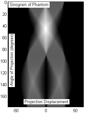 Sinogram formed from , taken at 50 equidistant angles spanning from 0 to 180 degrees.